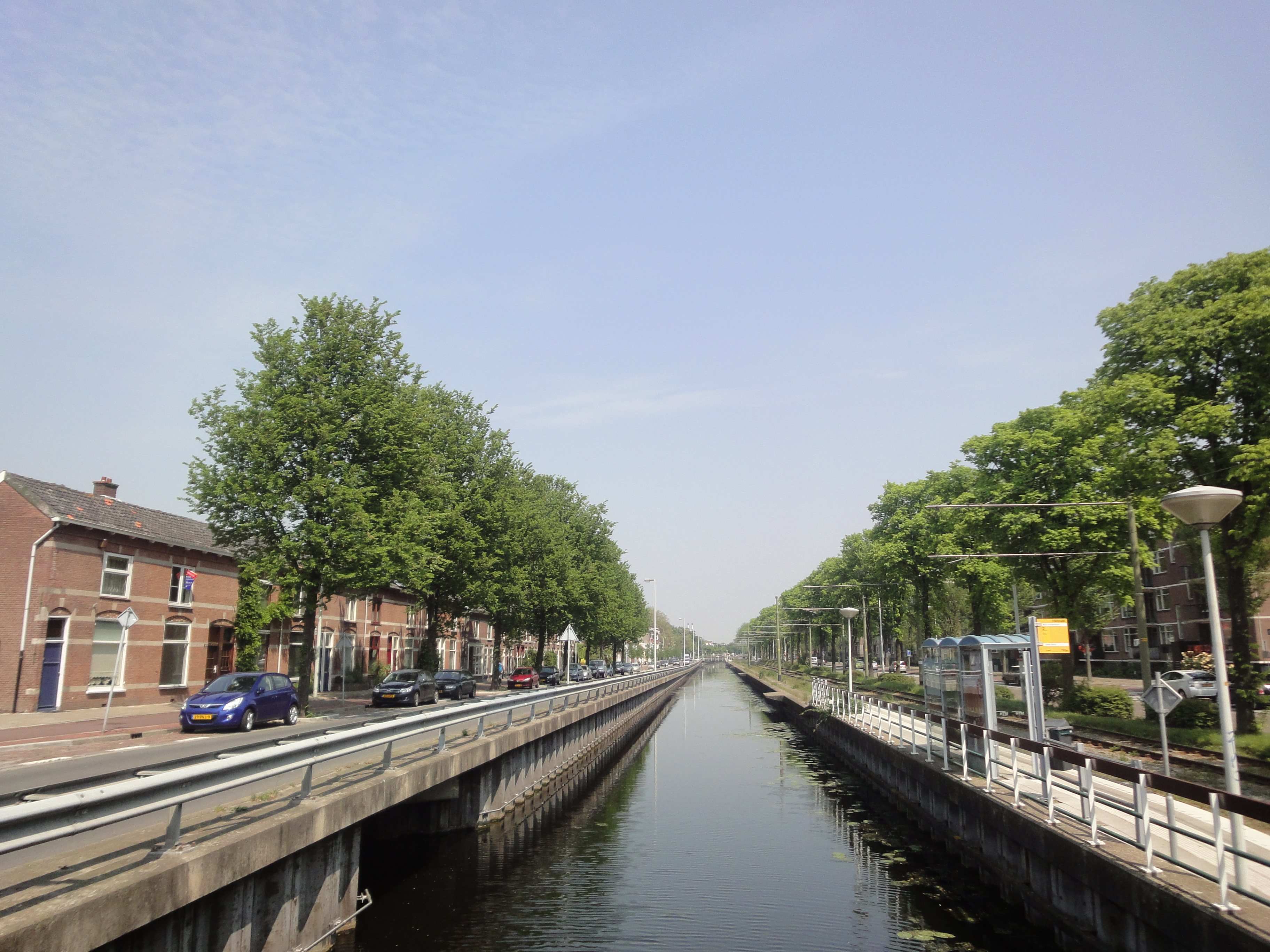 canal in Loosduinen, The Hague